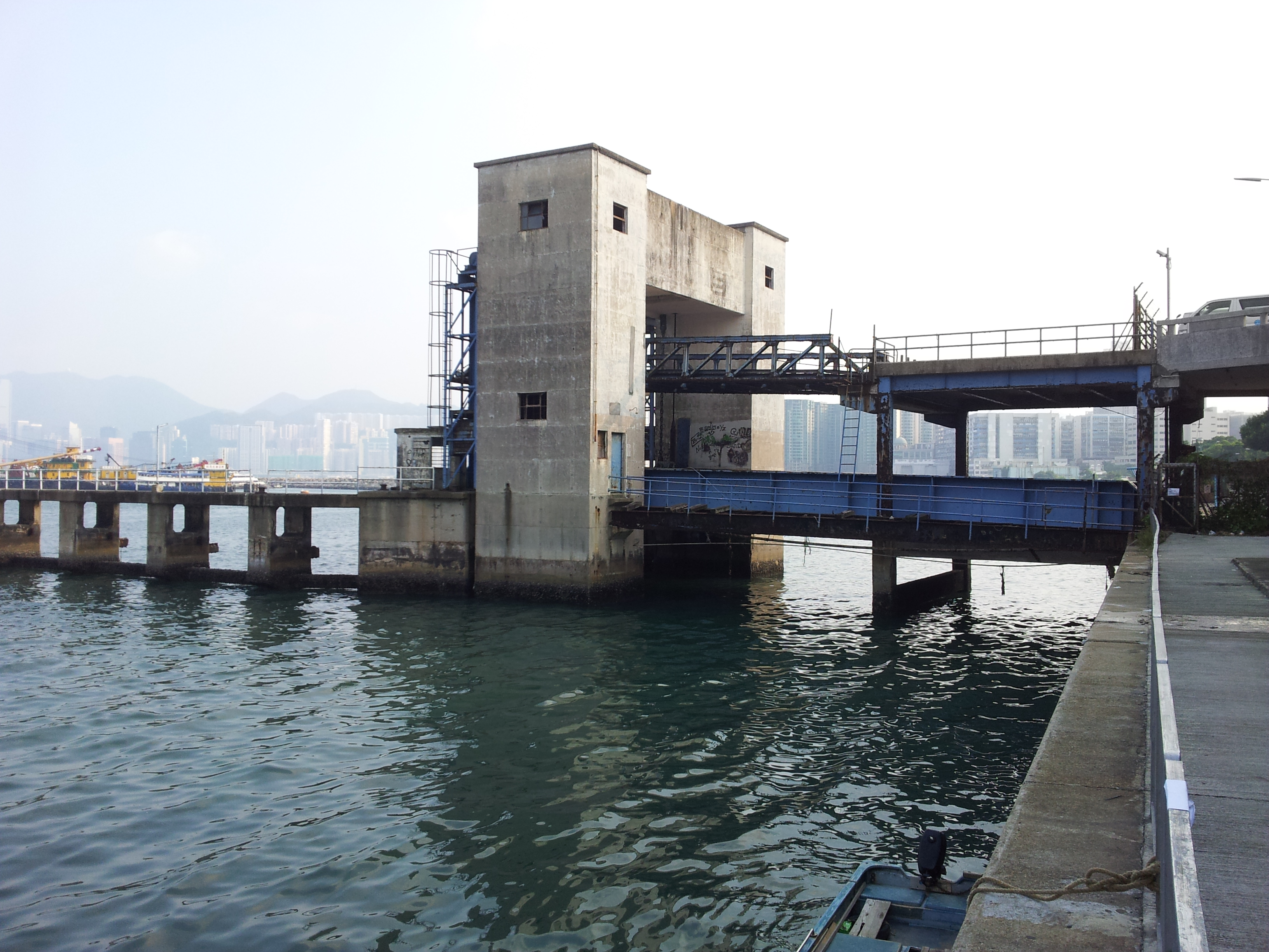 kowloon city pier abandoned car bridge